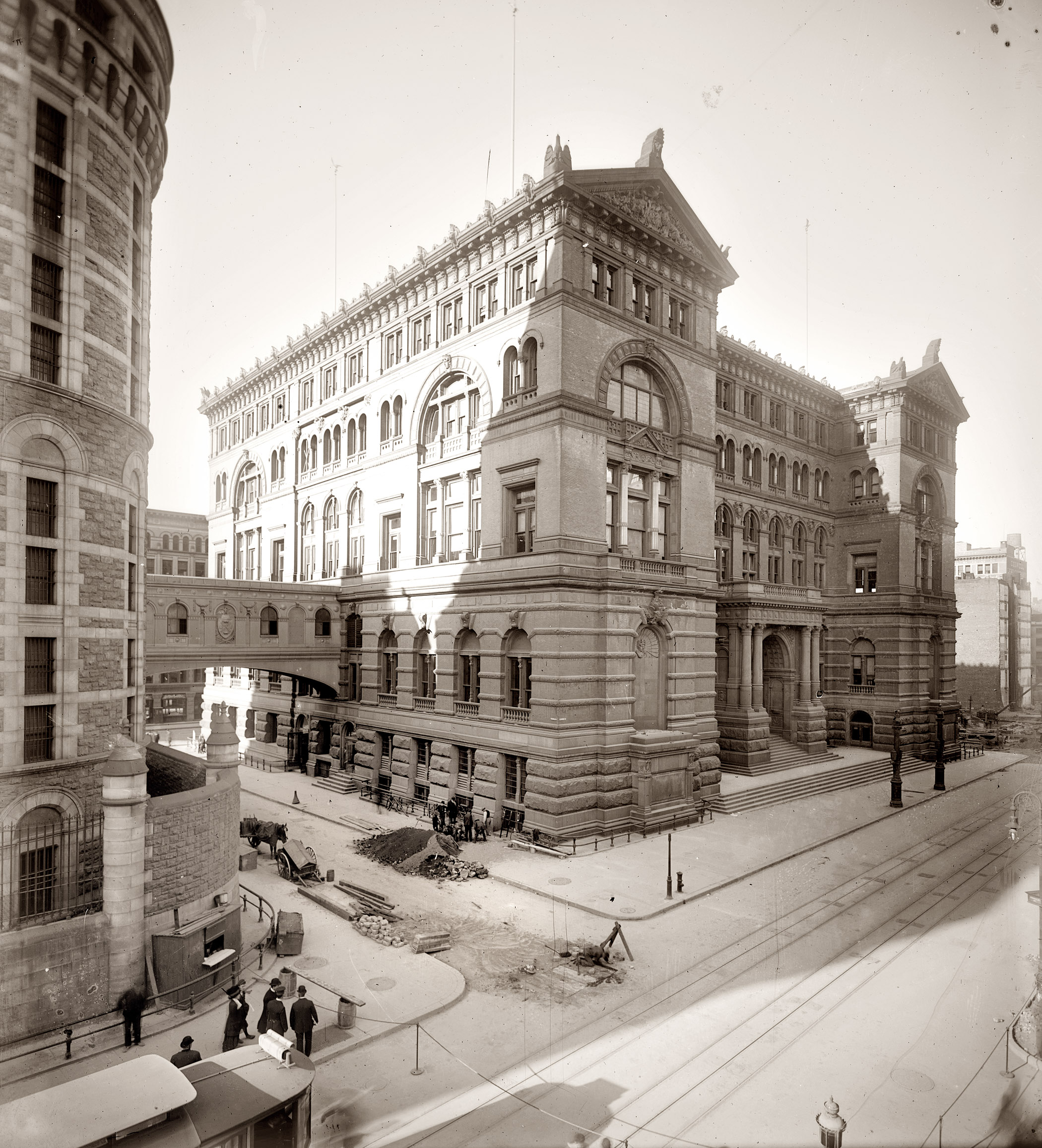 The Tombs in N.Y.C.